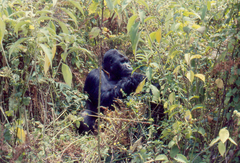 The Mountain Gorilla (Gorilla beringei beringei) is one of the two subspecies of the Eastern Gorilla. There are two populations, one is found in the Virunga volcanic mountains of Central Africa, the other in Uganda's Bwindi Impenetrable National Park. this photograph was taken in Virunga National Park in the eastern Democratic Republic of Congo (DRC). The Mountain Gorilla has longer and darker hair than other gorilla species, allowing it to live in hot or cold weather and travel into areas where temperatures drop below freezing point. Adult males are called silverbacks because a saddle of gray or silver-colored hair develops on their backs with age. The Mountain Gorilla is primarily terrestrial and quadrupedal. Digitized slide.